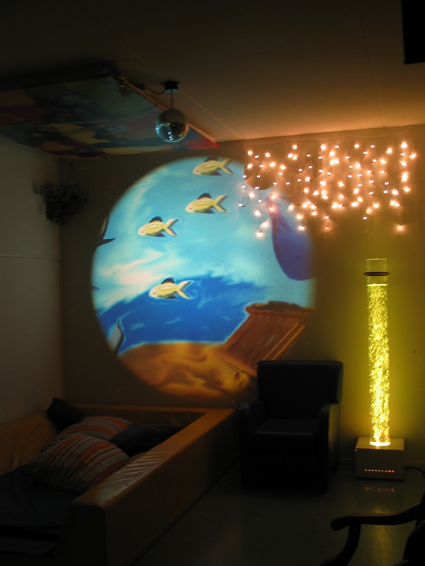 snoezelruimte (room for controlled multisensory stimulation) the Netherlands